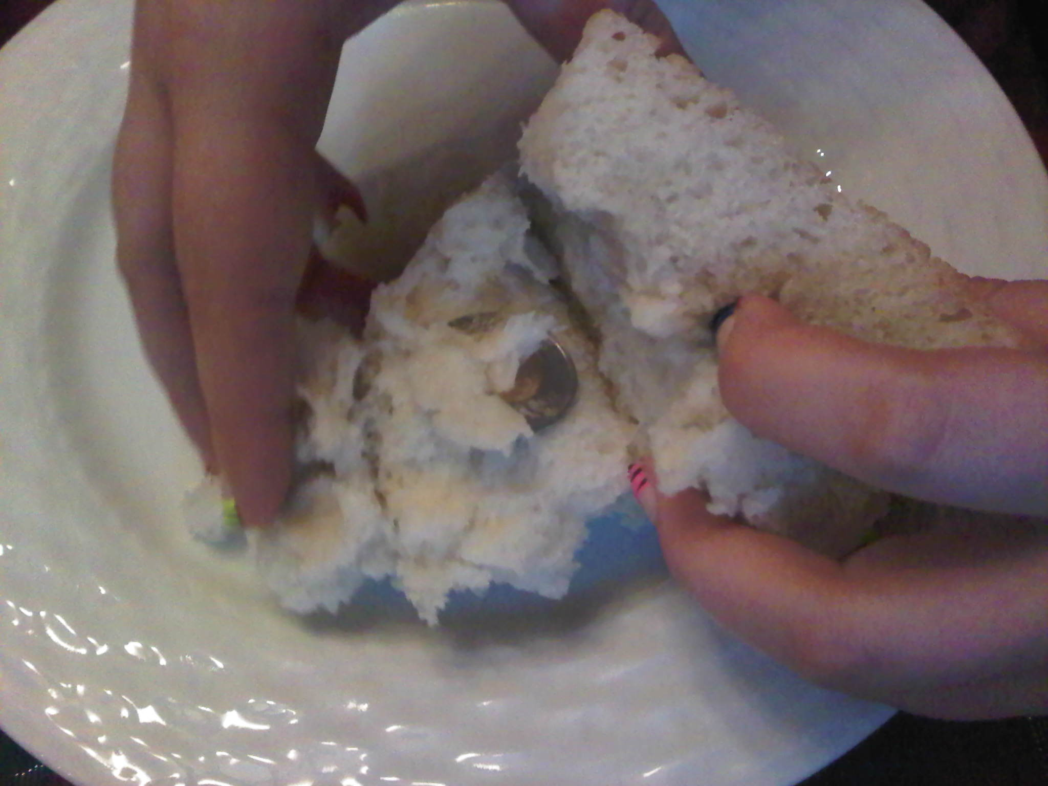 Traditional Bread for Christmas Česnica with Dukat (Golden Coin)